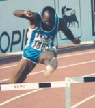 Ed Moses, the 1987 World Championship. Author: User:GingerBeast picture found on There is the license: Public domain.